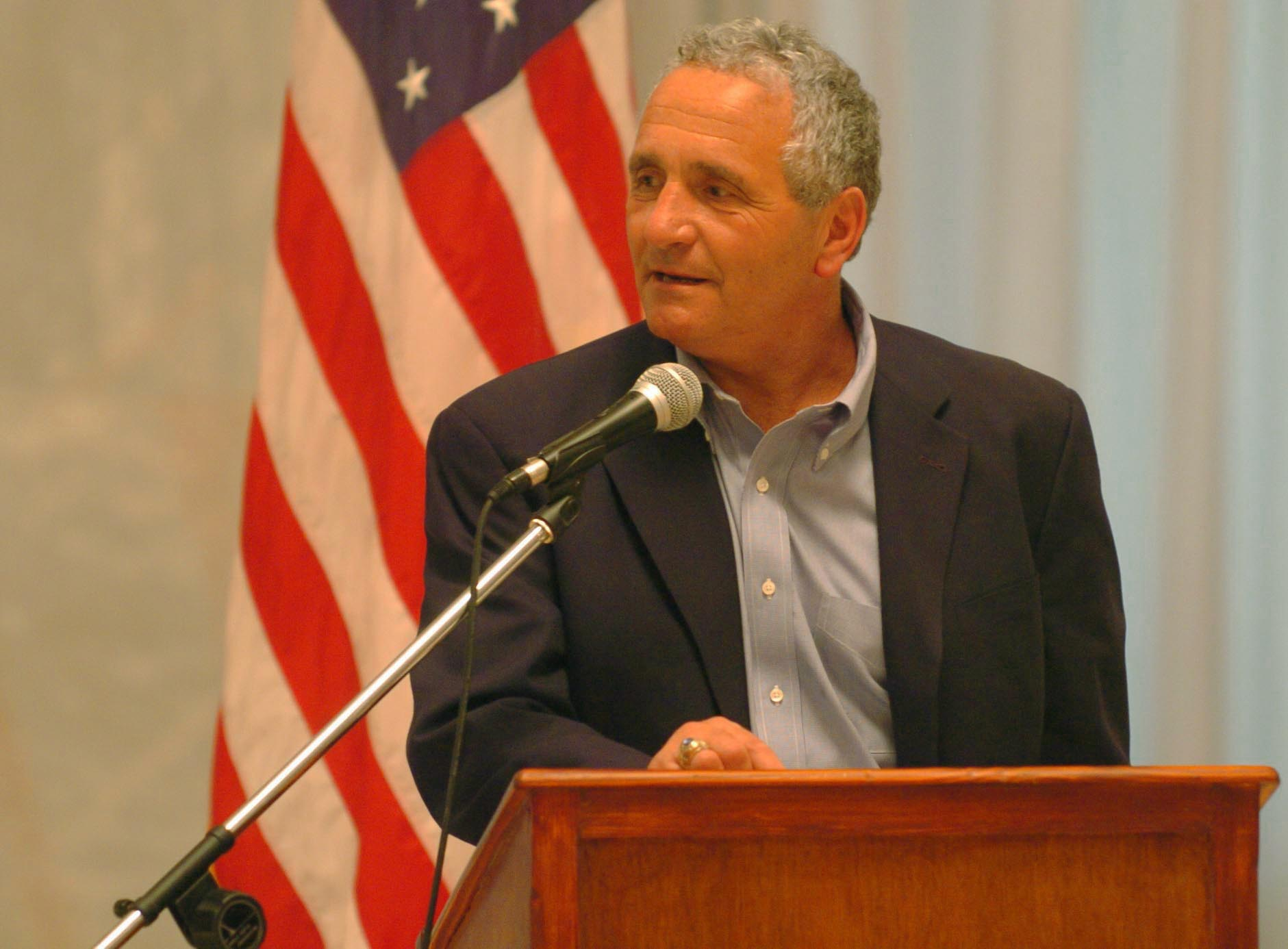 Anthony Principi, secretary of Veterans Affairs, spoke to Soldiers July 14, 2004 at Al Faw Palace, Camp Victory, Iraq, during a visit to troops participating in Operation Iraqi Freedom.